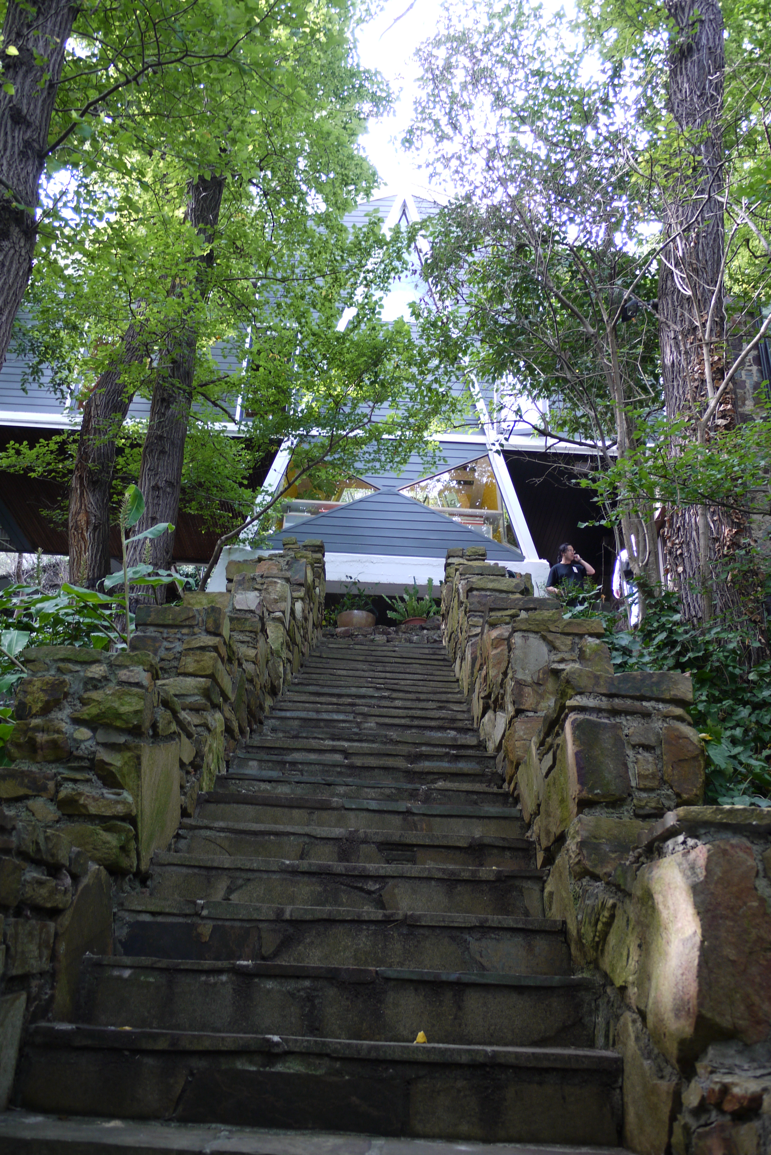 The steps leading up to Peter McIntyre's River Residence.